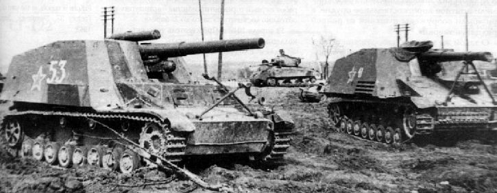 Captured German Hummel SPG's in Soviet colors